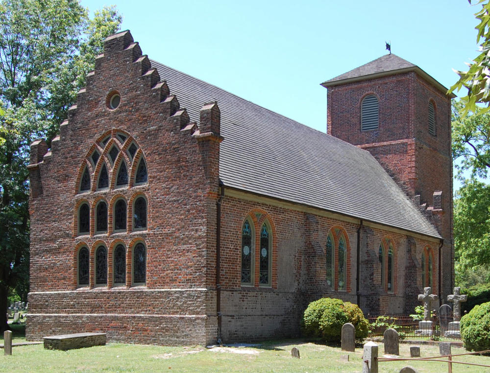 David King, Newport Parish Church, North-west Facade